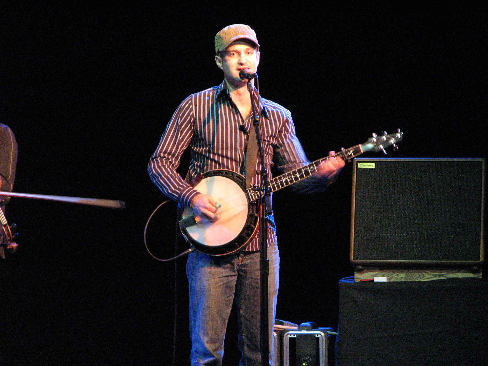 Brad Gillard of the The Paperboys performing at the Triple Door in Seattle, Washington in November 2006.